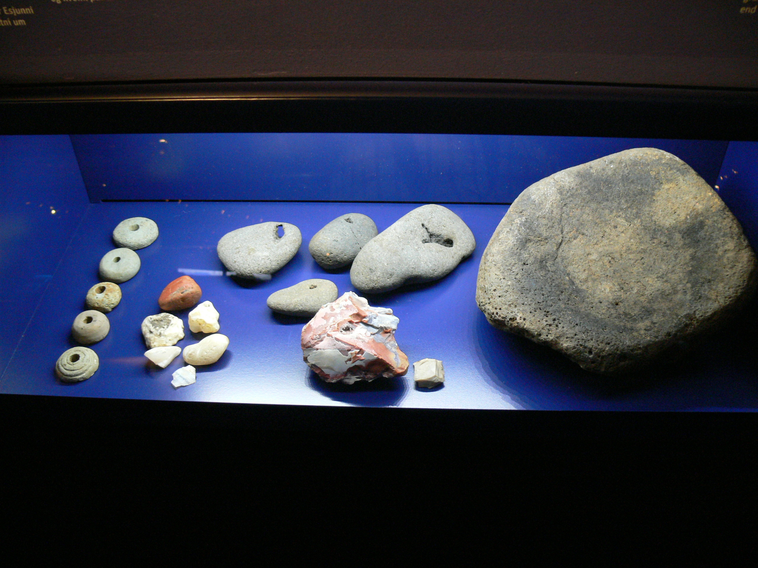 Reykjavik 871 +/-2 Exhibition. Stone tools ( spindle whorls, gaming pieces, loom weights etc. )